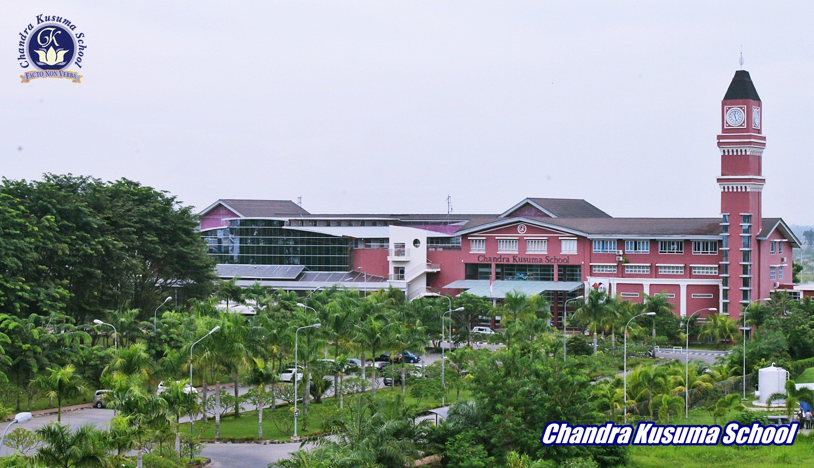 The main building of Chandra Kusuma School. The left building holds SD level students and above, on the right the admin block and auditorium.